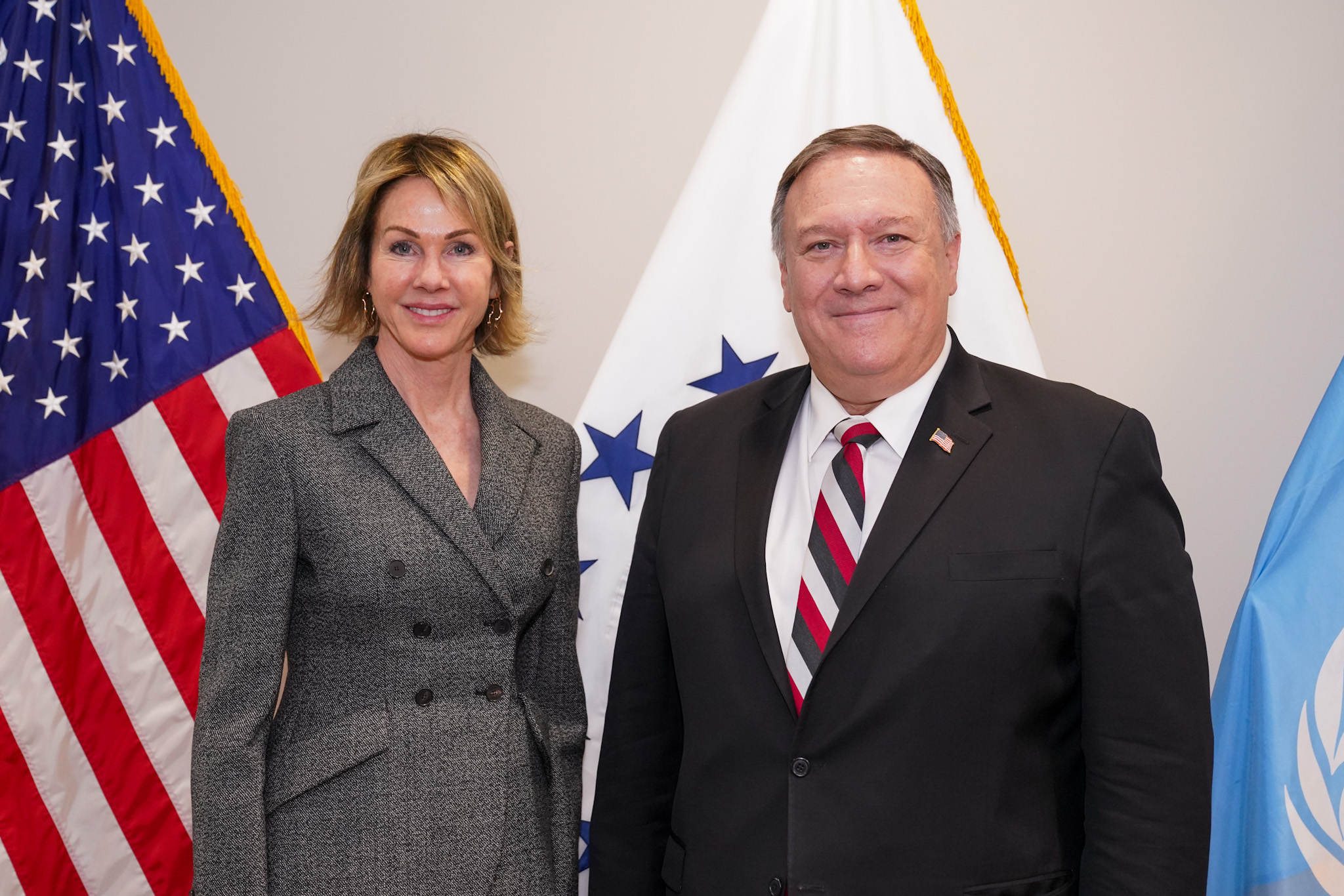 Secretary of State Michael R. Pompeo meets with US Ambassador to the UN Kelly Craft in New York, New York on March 6, 2020. [State Department Photo by Ron Przysucha/ Public Domain]